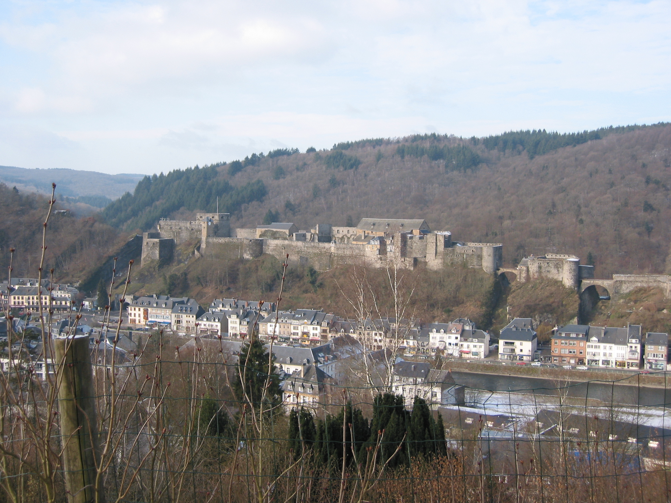 View on the city of Bouillon and its medieval castle, Belgium.